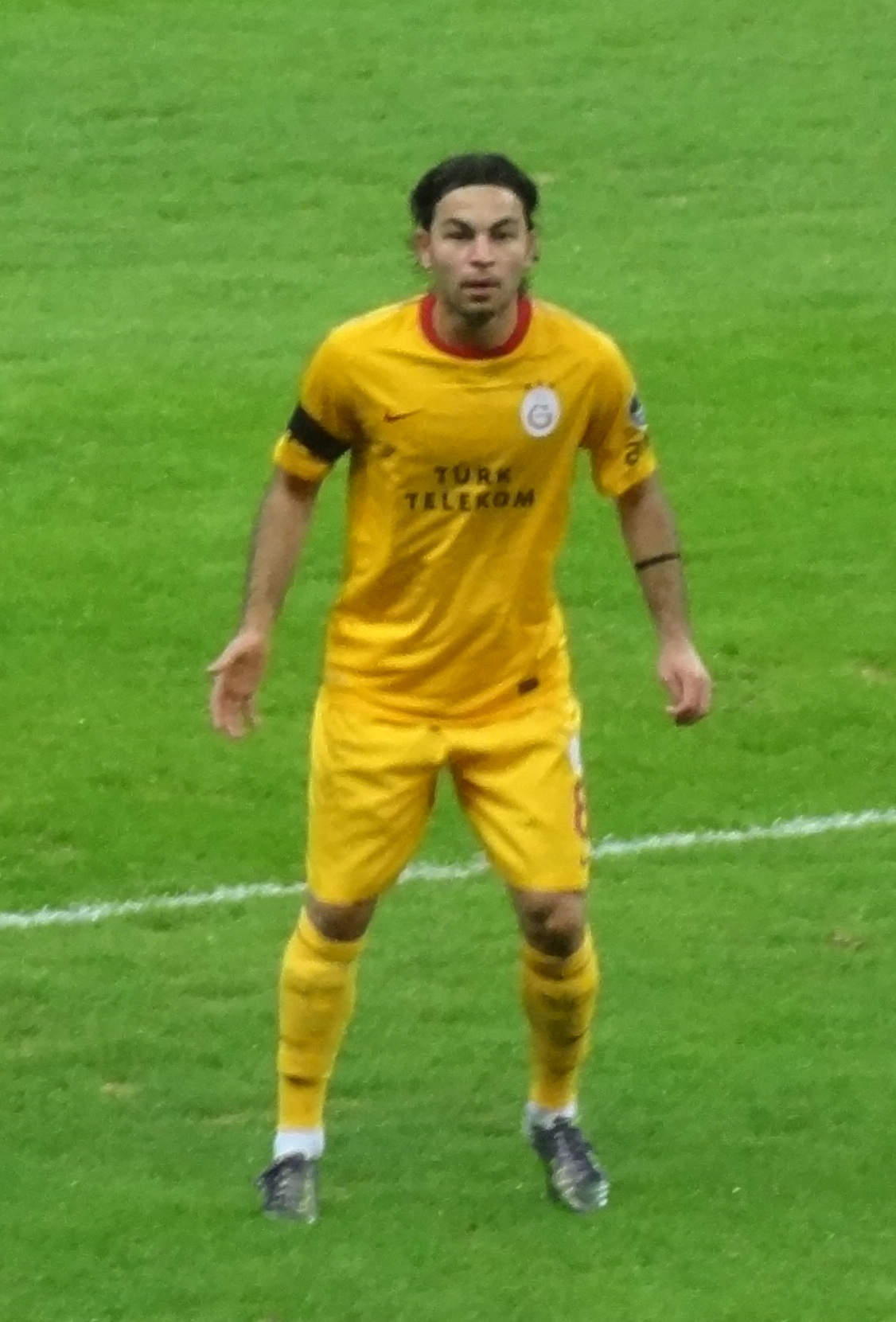 selcukagainstantep